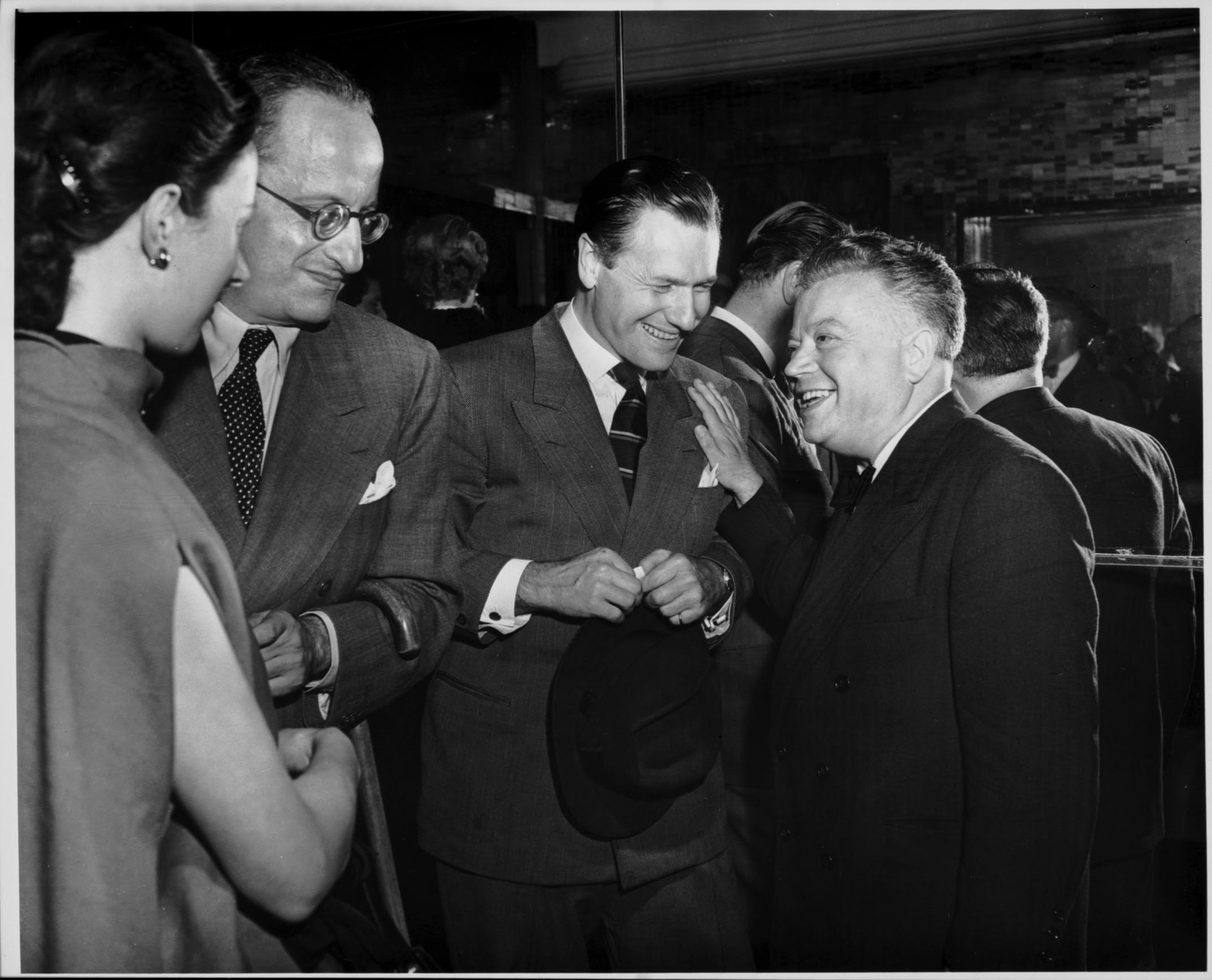 Title: David Dubinsky and Nelson Rockefeller socialize with others. Date: Unknown Photographer: Unknown Photo ID: 5780PB30F4A Collection: International Ladies Garment Workers Union Photographs (1885-1985) Repository: The Kheel Center for Labor-Management Documentation and Archives in the ILR School at Cornell University is the Catherwood Library unit that collects, preserves, and makes accessible special collections documenting the history of the workplace and labor relations. Notes: No additional information available. Copyright: The copyright status of this image is unknown. It may also be subject to third party rights of privacy or publicity. Images are being made available for purposes of private study, scholarship, and research. The Kheel Center would like to learn more about this image and hear from any copyright owners who are not properly identified so that we may make the necessary corrections. Tags: Kheel Center for Labor-Management Documentation and Archives,Cornell University Library,Labor Leaders, Public Figures